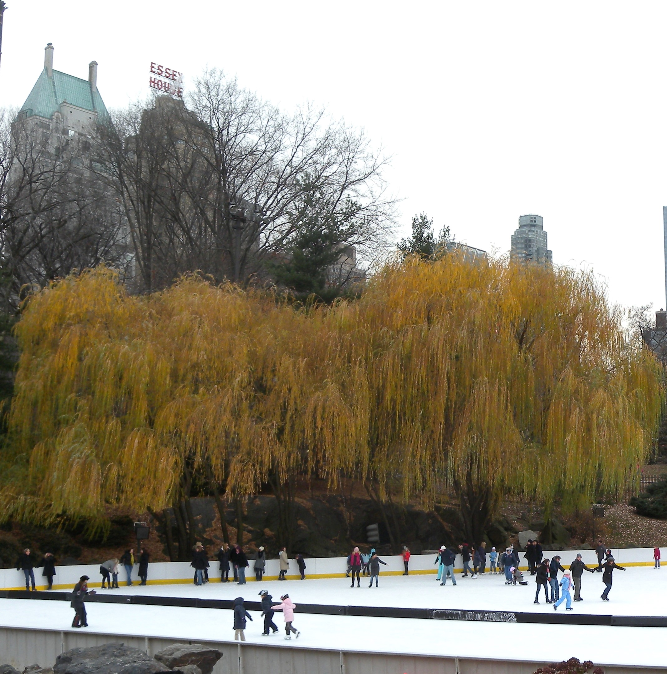 Looking west across the Wolman Rink at Weeping Willows turning color on a cloudy day.